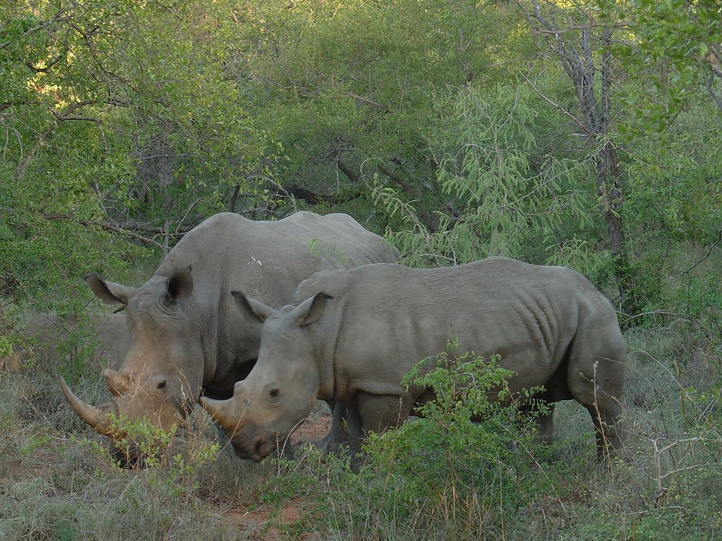 KrugerPark South Africarhinoceros